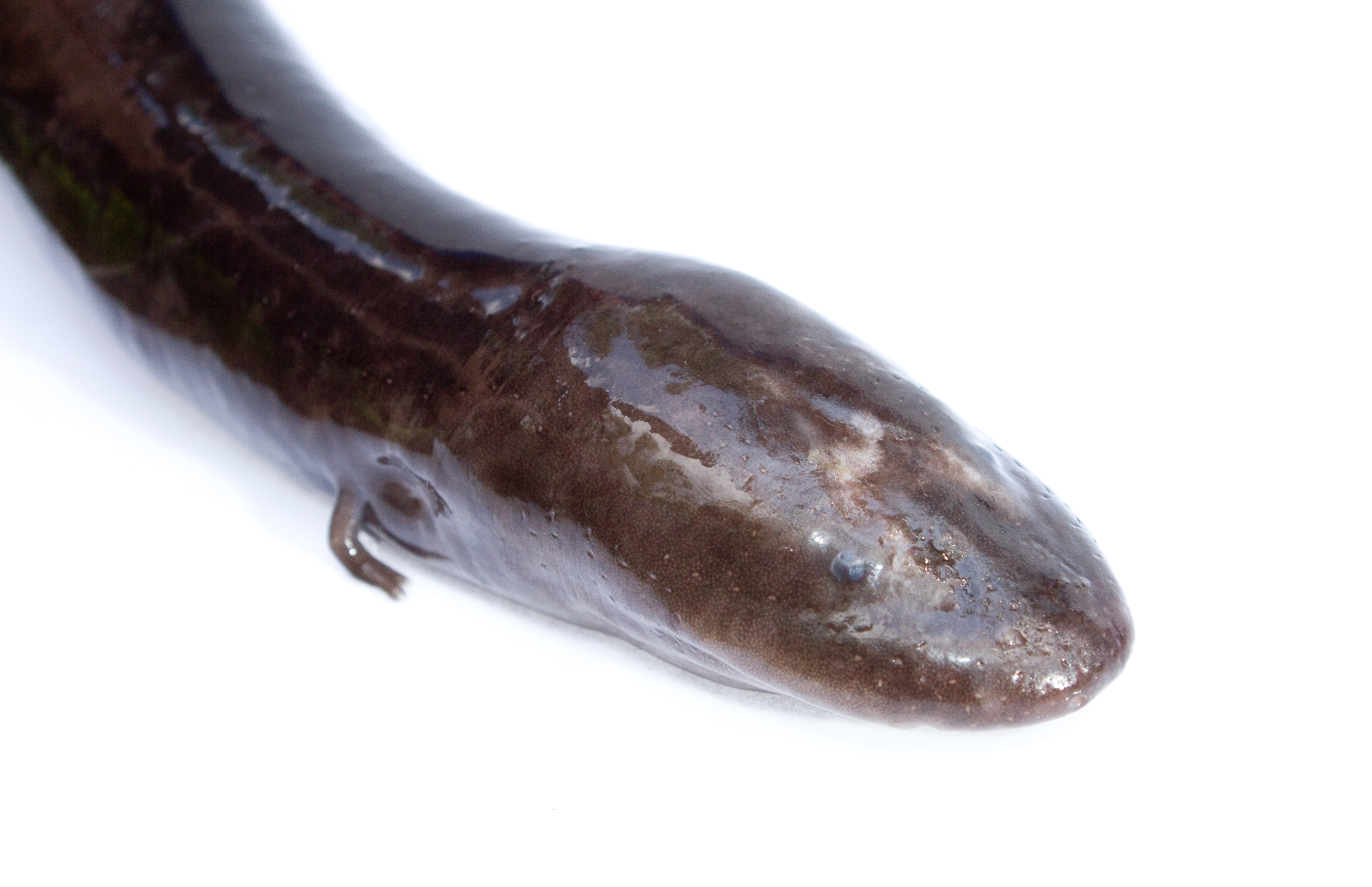 Two-toed Amphiuma